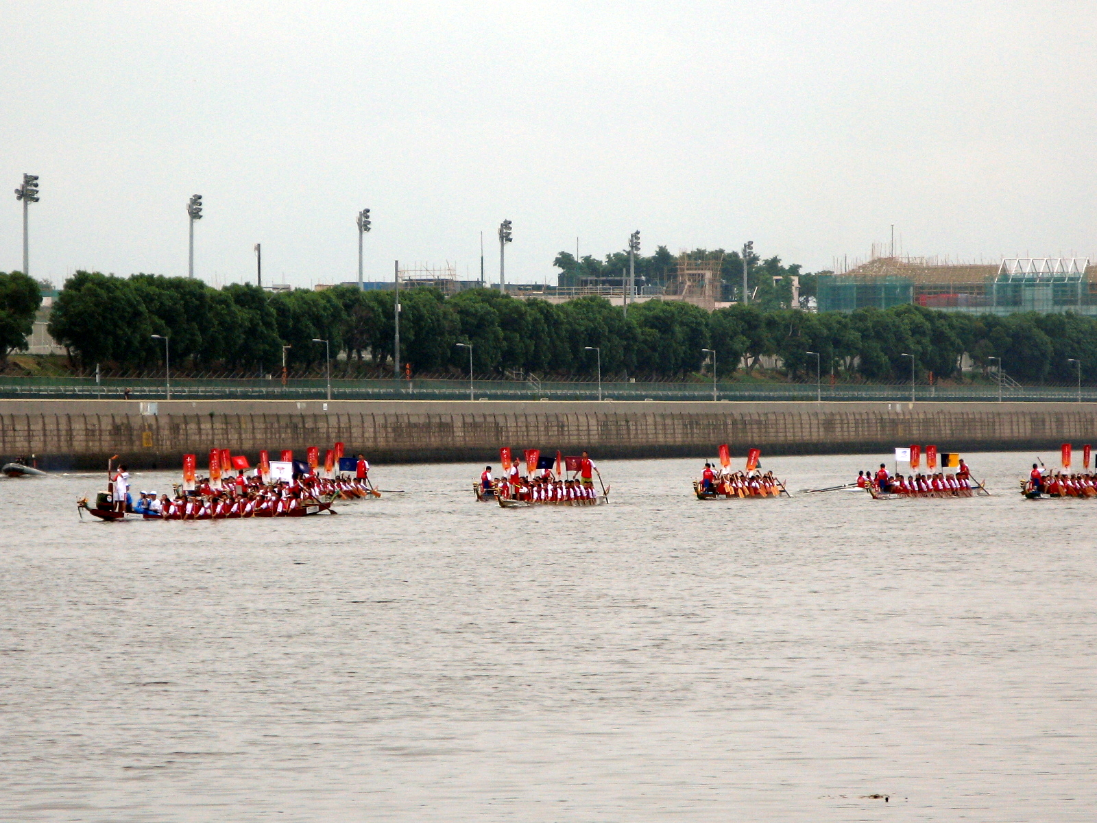 Torch Relay in HK Shing Mun River Channel